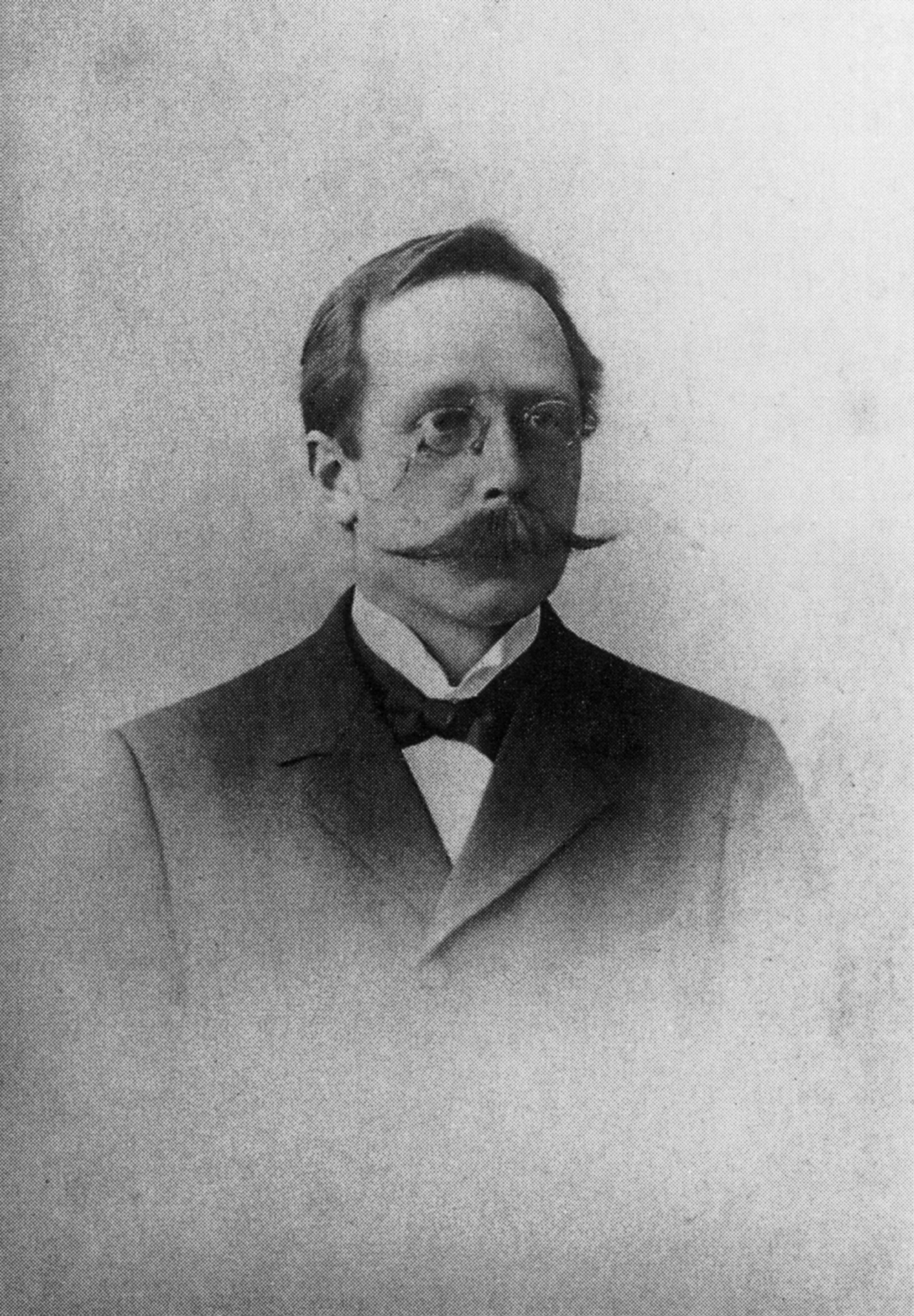 Portrait photograph of Eduard Oberg, one of the founders of the Scientific-Humanitarian Committee.